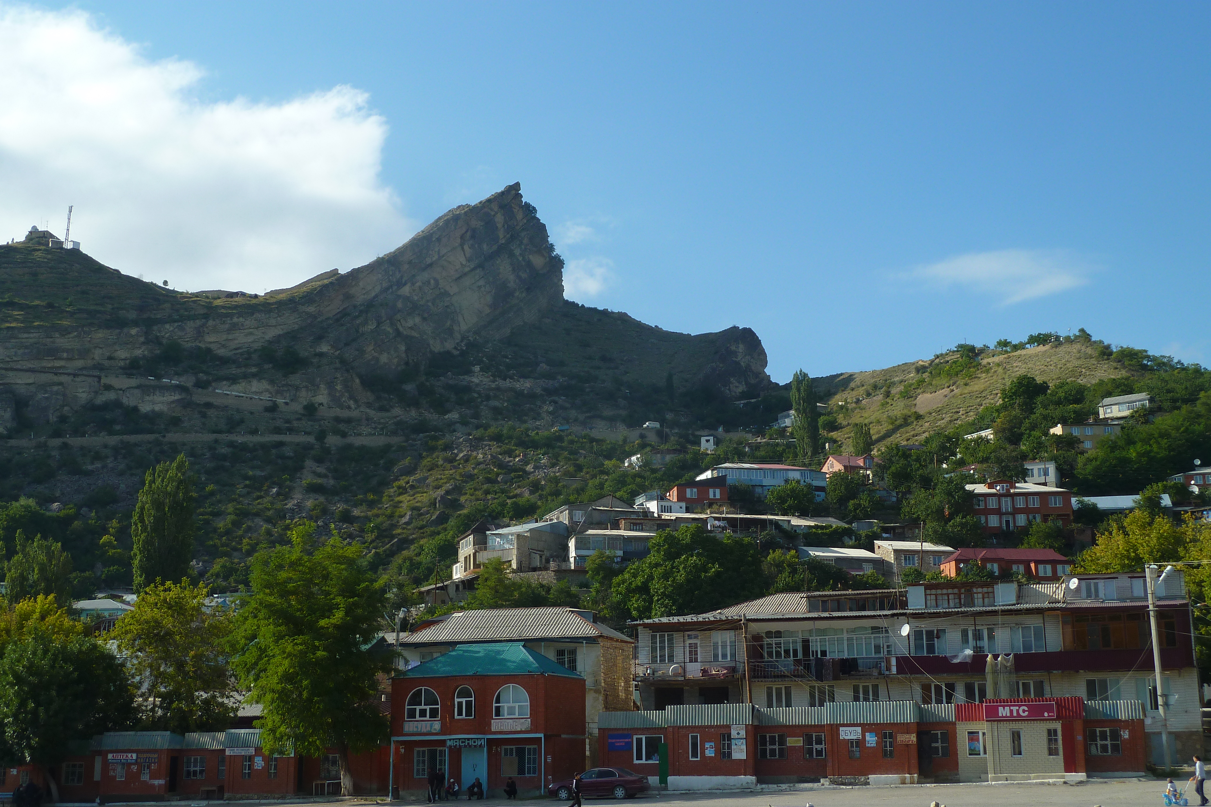 The village Gunib in Dagestan.